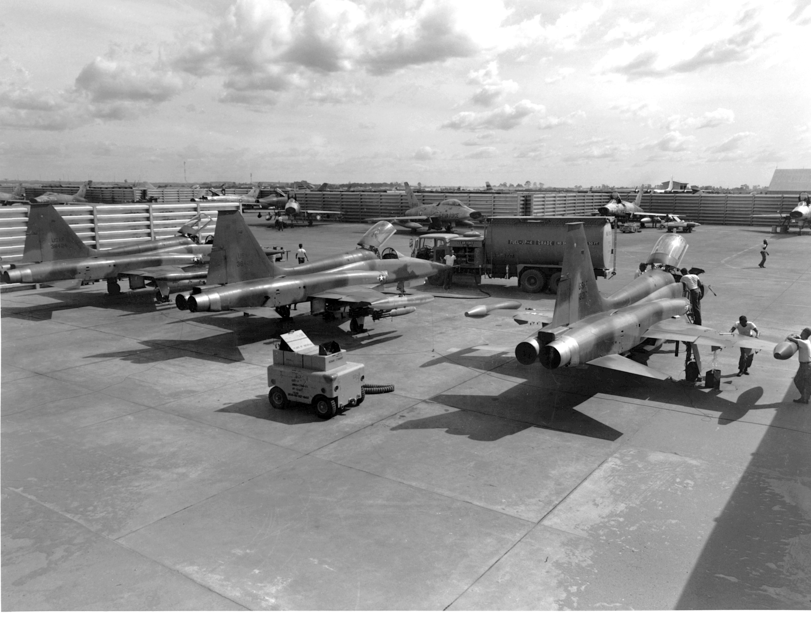 Three U.S. Air Force Nortrop F-5C Freedom Fighter aircraft, armed with 227kg (500 lb) bombs, are shown in the revetment area at Bien Hoa Air Base, South Vietnam, on 31 January 1966. Several North American F-100D Super Sabres and a Lockheed C-130 Hercules are visible in the background.In October 1965 the USAF began a five-month combat evaluation of the F-5A titled "Skoshi Tiger". Twelve aircraft were delivered for trials to the 4503rd Tactical Fighter Wing and redesignated as F-5Cs. They performed combat duty in Vietnam, flying more than 3,500 sorties from the 3rd Tactical Fighter Wing at Bien Hoa in South Vietnam. Two aircraft were lost in combat. Though declared a success, the program was more a political gesture than a serious consideration of the type for U.S. service. From April 1966 the aircraft continued operations as 10th Fighter Commando Squadron with their number boosted to seventeen aircraft. In June 1967 the 10th FCS's surviving aircraft were turned over to the South Vietnamese Air Force (VNAF).